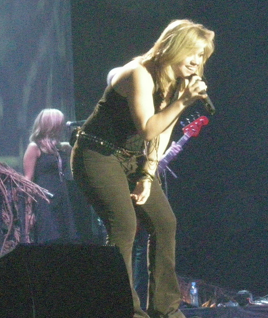 Kelly Clarkson, Heineken Music Hall Amsterdam April 6 2008.